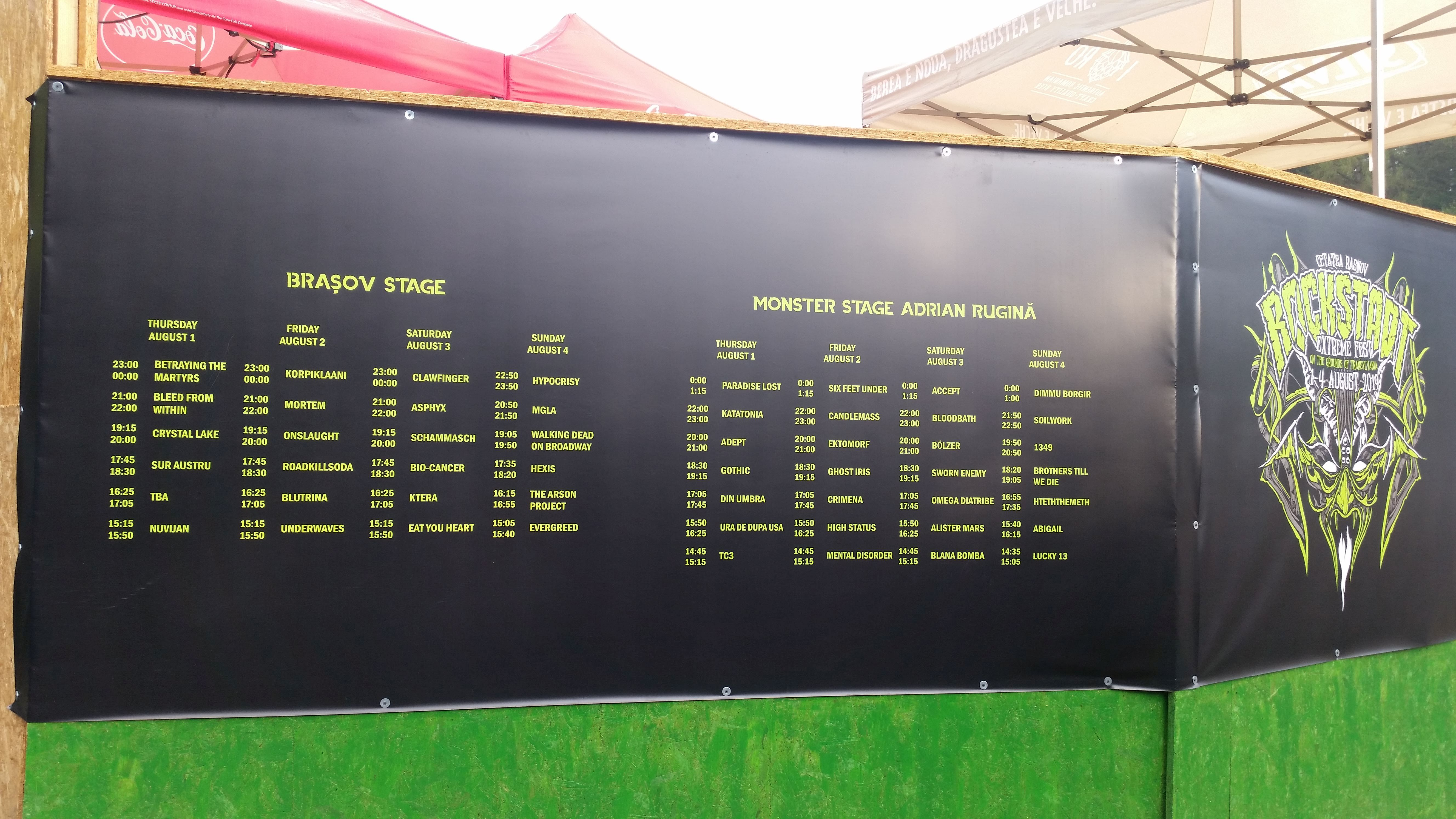 Lineup by day at Rockstadt Extreme Fest 2019 at Râșnov, Romania